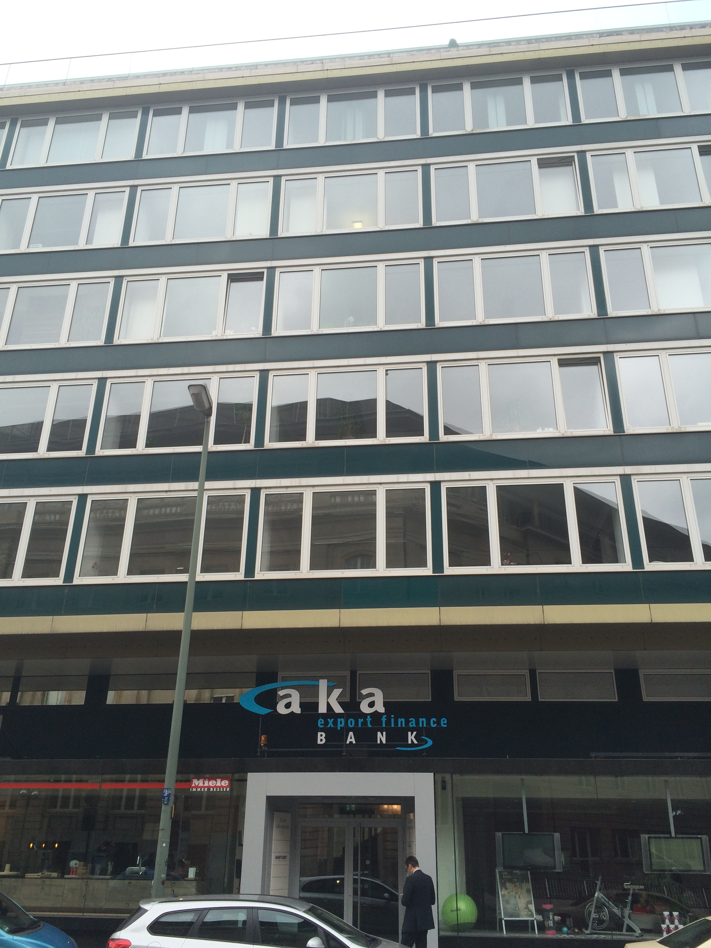 AKA Ausfuhrkredit Bank - export finance bank